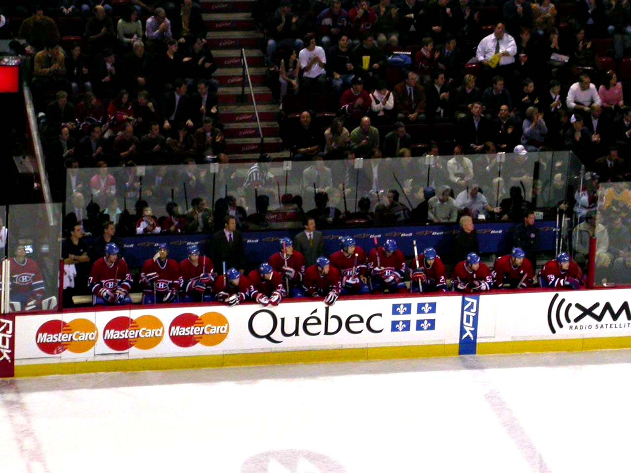 Bench of the Montreal Canadiens